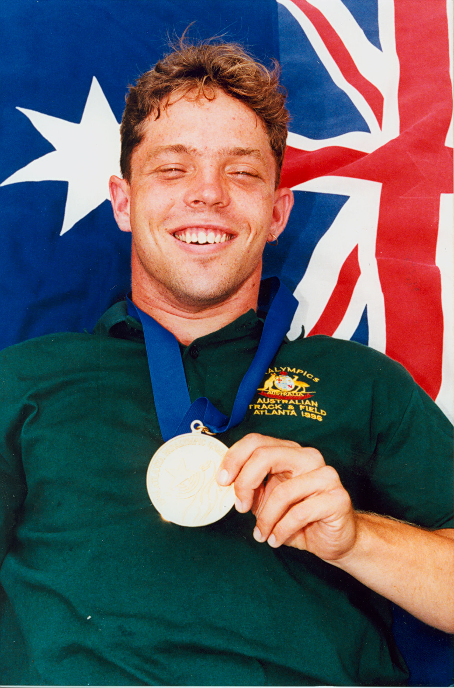 Australian gold medallist in the shot put Hamish MacDonald showing his medal at the Atlanta 1996 Paralympic Games.